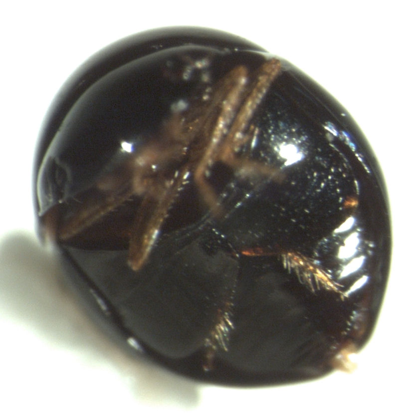 adult female Clambus pluto